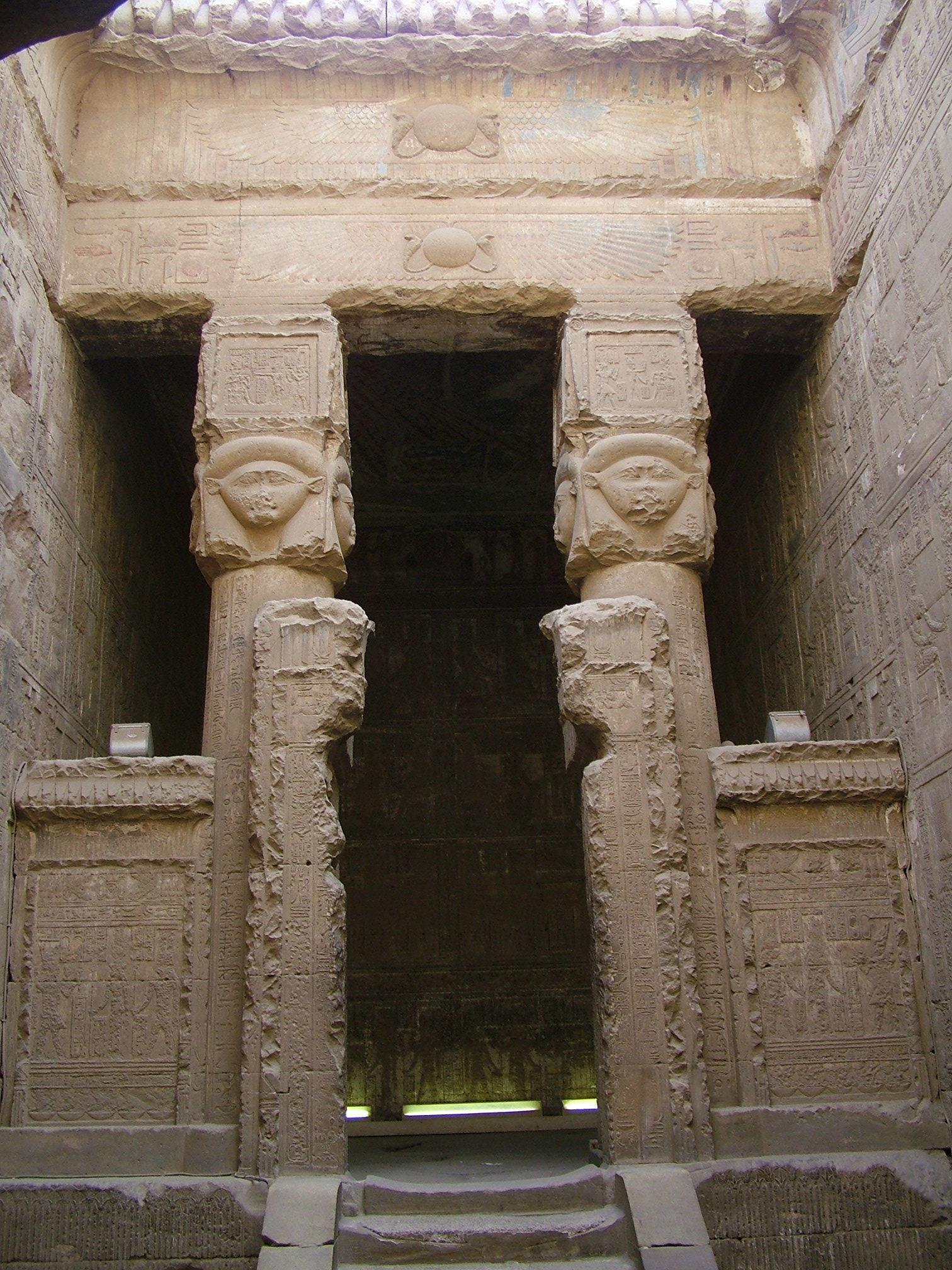 Chapel of the New Year. Wabet in Dendara temple, Egypt